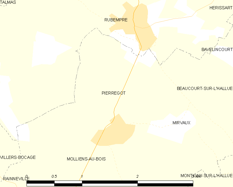 Map of French municipality Pierregot